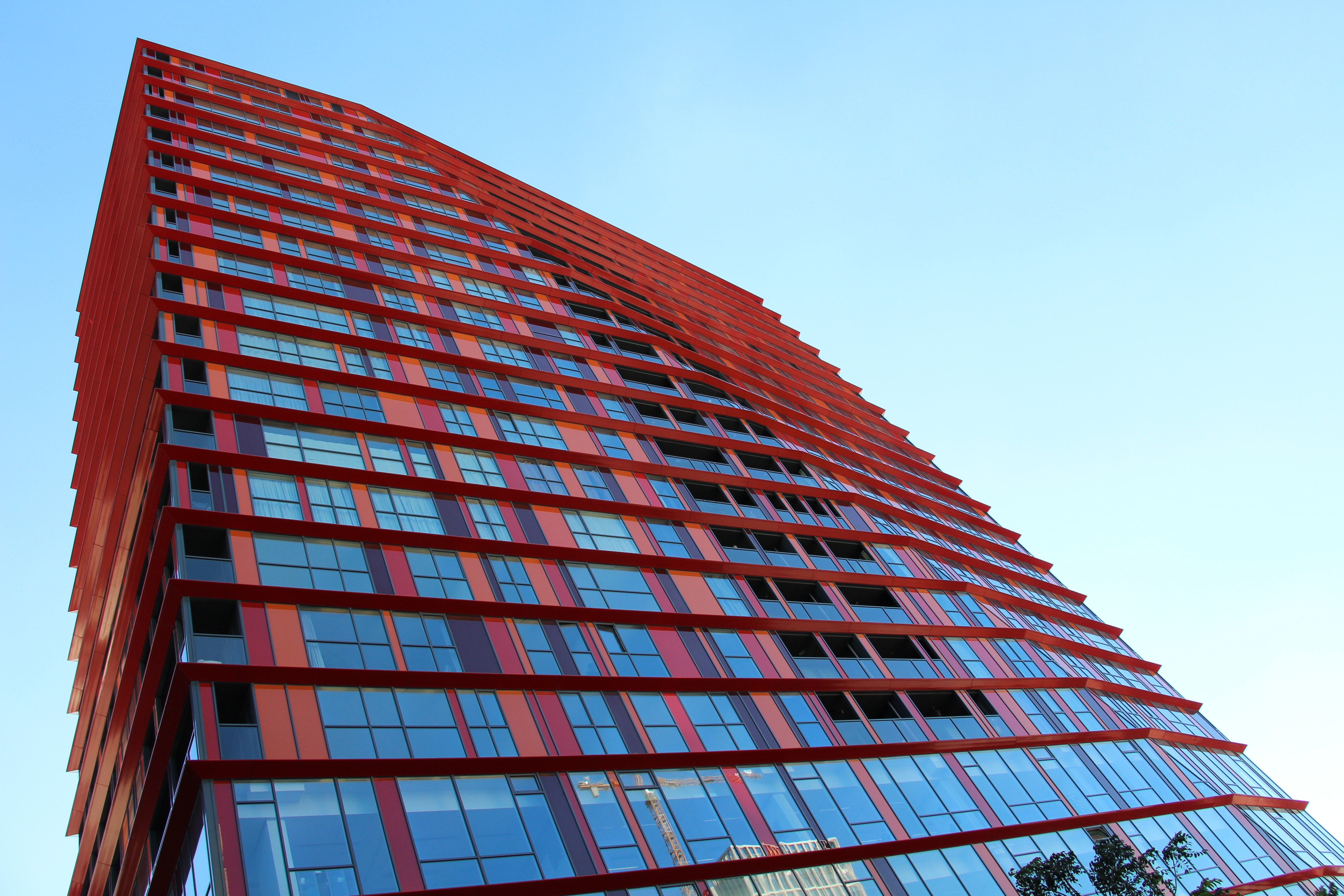 (Cool) Mauritsweg/ Schouwburgplein Calypso is a large residential building of 22 floors and 70 meters high. Arch. Alsop Architects (William Alsop) 2009-13.